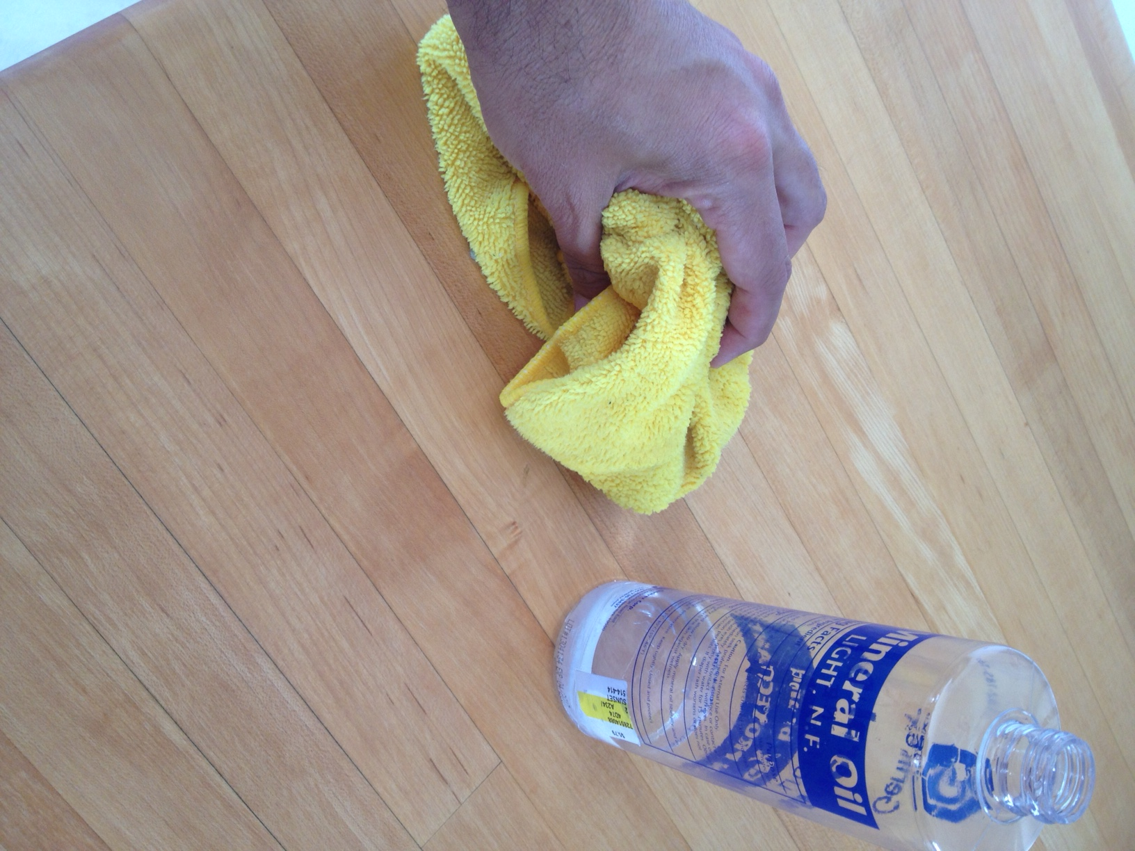 A hand using mineral oil to preserve a butcher block. A generic bottle of mineral oil, with logo and branding obscured, is included as context.